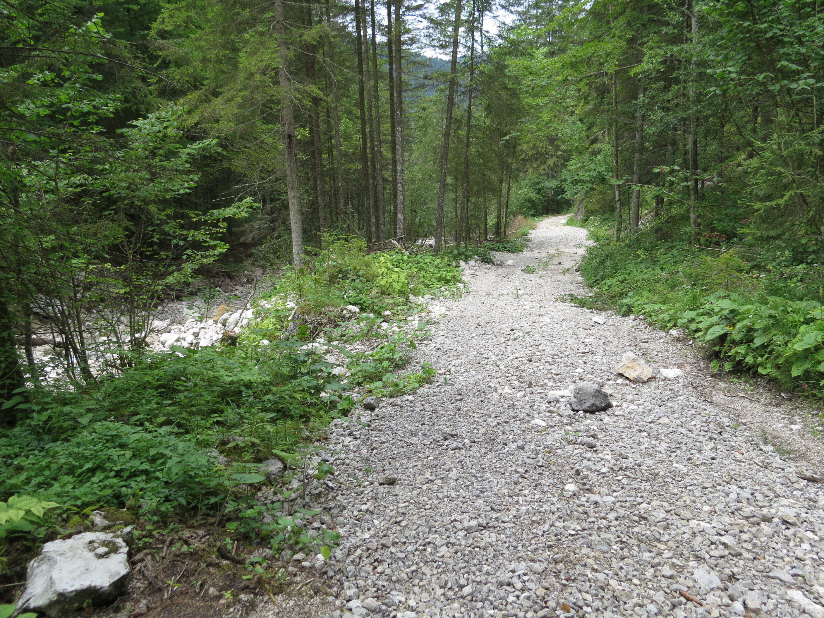 Lechnergraben at Dürrenstein (Ybbstaler Alpen)